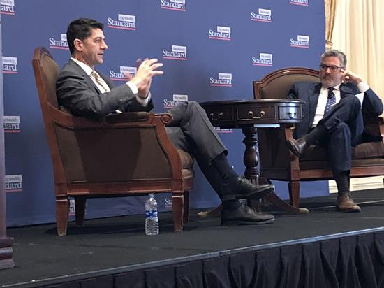 April 30, 2018 - Paul discusses federal policy with Stephen F. Hayes, Editor-in-Chief of The Weekly Standard. Paul served as keynote speaker at their Midwest Conservative Summit in Milwaukee.